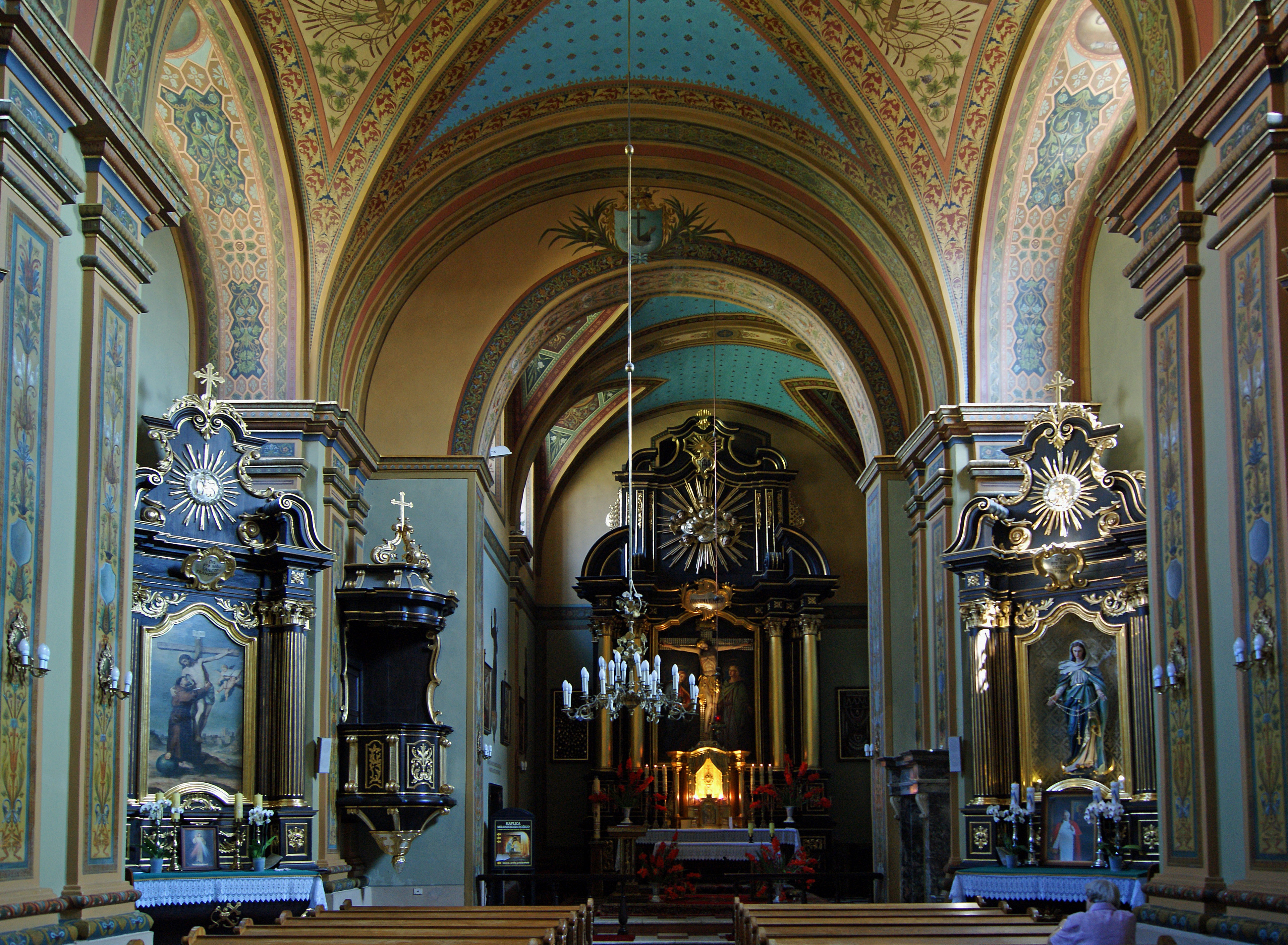 Exaltation of the Holy Cross Church (interior), 13 Bernardyńska street, City of Tarnów, Poland